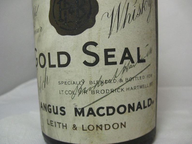 Photo taken circa 12-23-2012. Whiskey bottle found under floor and collected by Richard Sanders, Cleveland, Ohio, U.S.A.